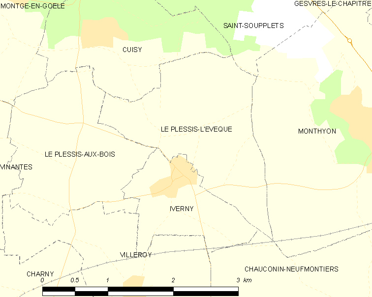 Map of French municipality Le Plessis-l'Évêque